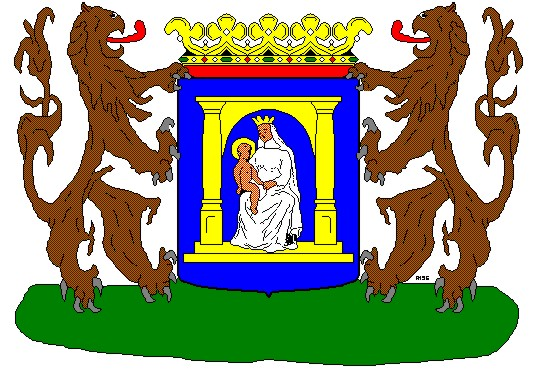 Coat of arms of Assen, province of Drenthe, The Netherlands.